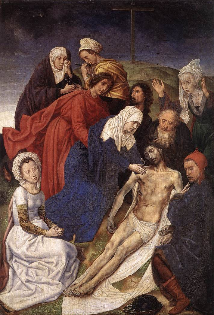 right panel of a Diptych